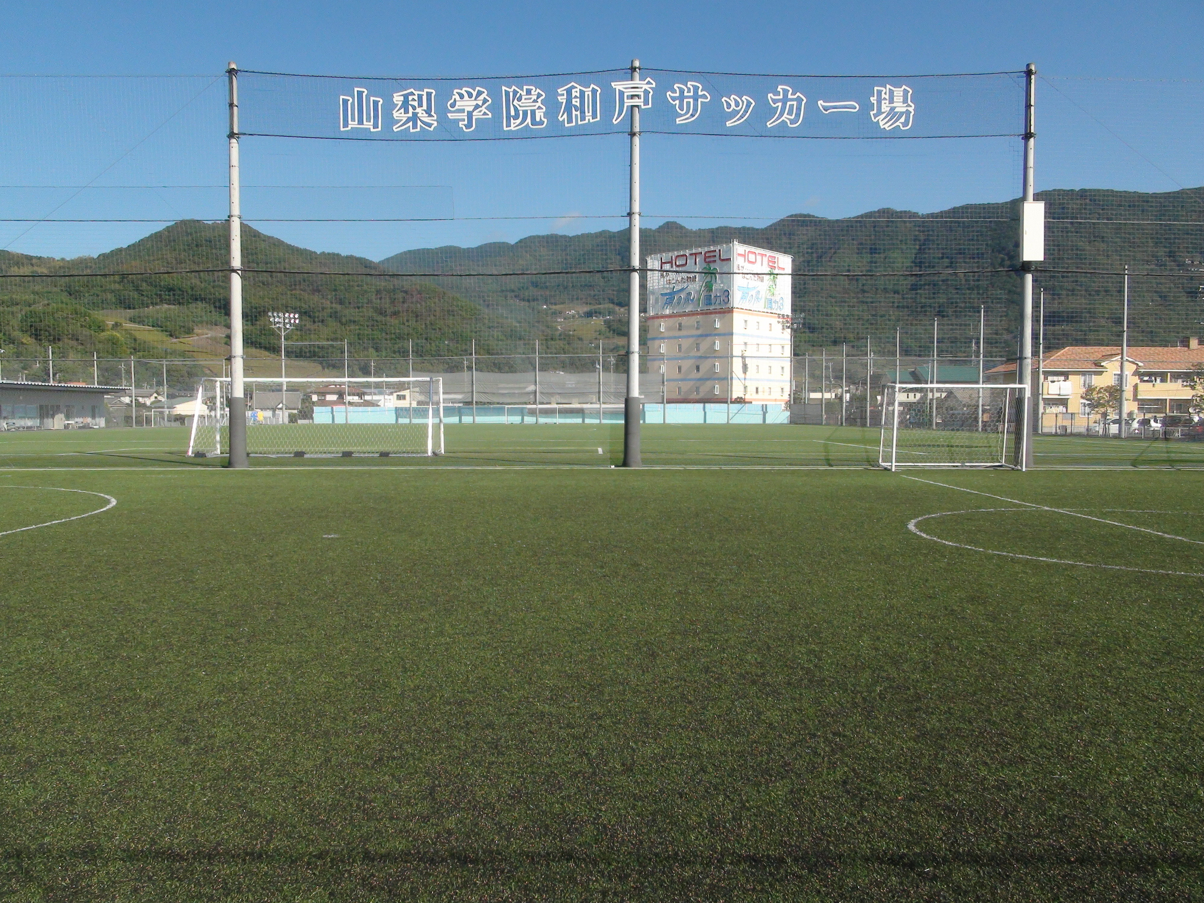 Yamanashi Gakuin University WADO Soccer ground